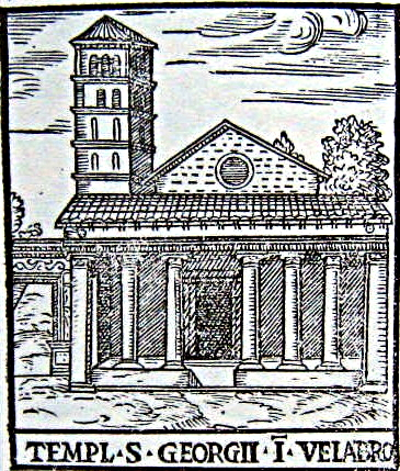 San Giorgio in Velabro by Girolamo Francino (1588)